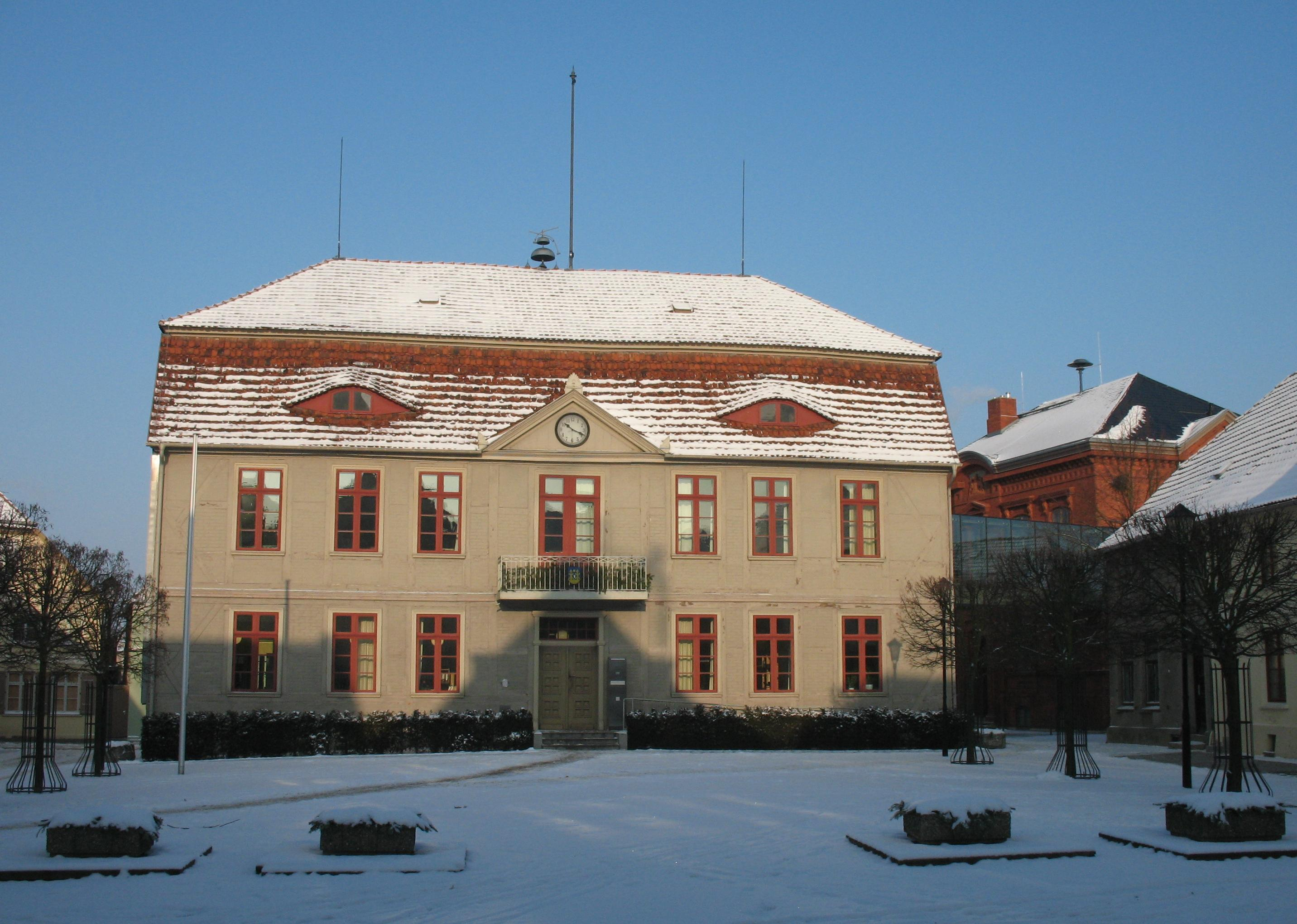 Town hall in Malchow in Mecklenburg-Western Pomerania, Germany